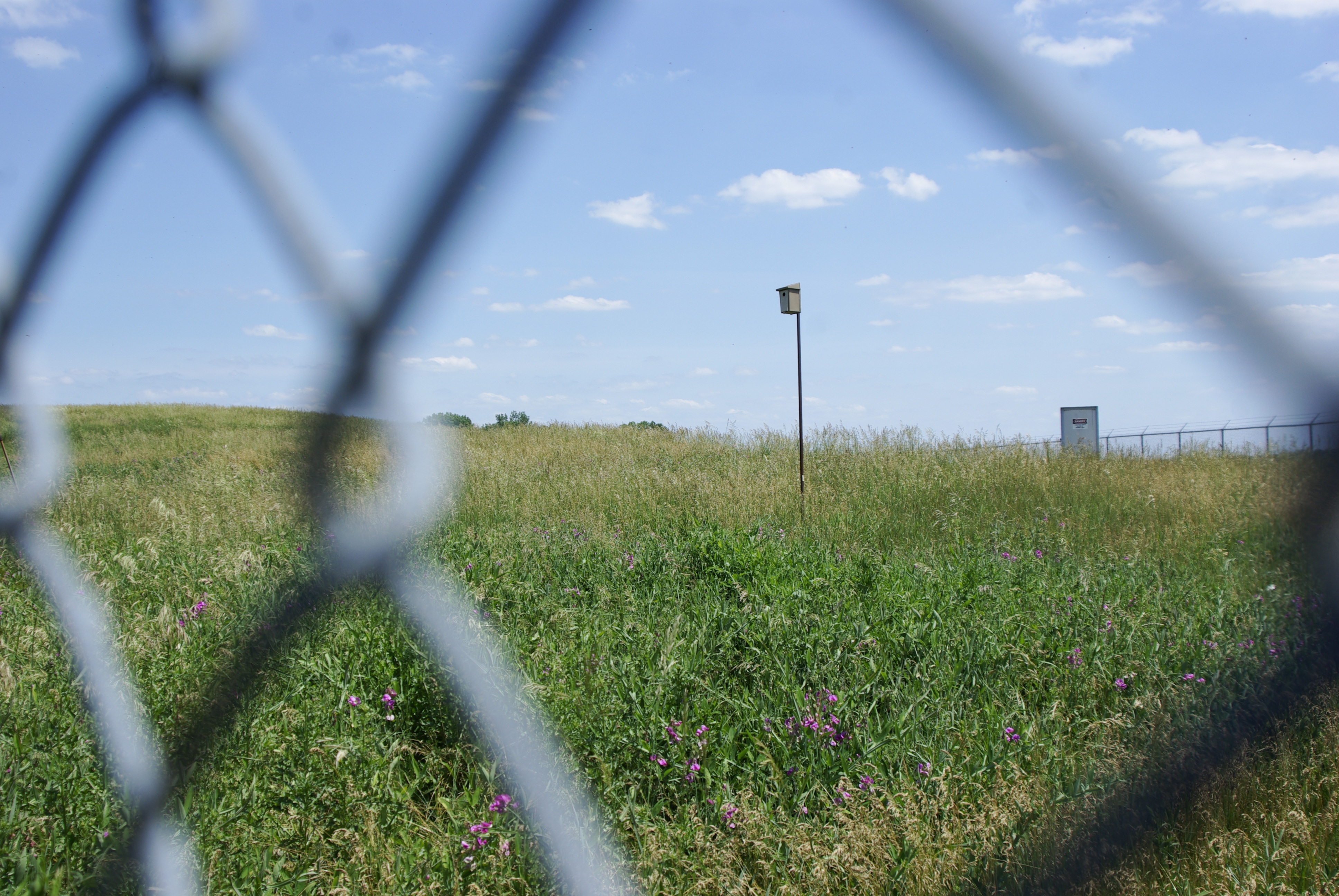 A photograph of the 102nd Street chemical landfill in Niagara Falls, New York.